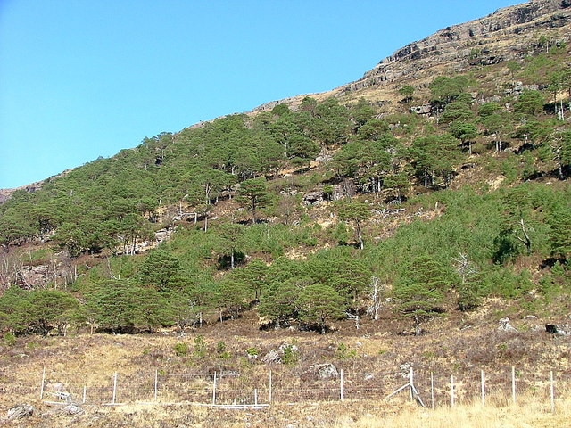 Scots pine on Coille Creag-Loch Above Loch Dughaill in Glen Shieldaig.